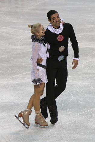 Aliona Savchenko and Robin Szolkowy at the 2010 European Figure Skating Championships.